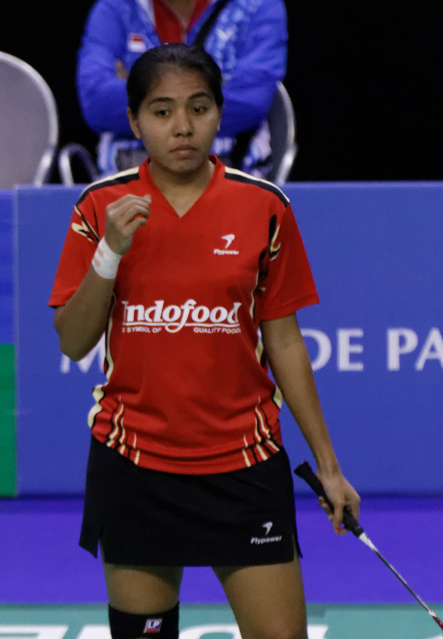 Nitya Krishanda Maheswari, Indonesian badminton player.